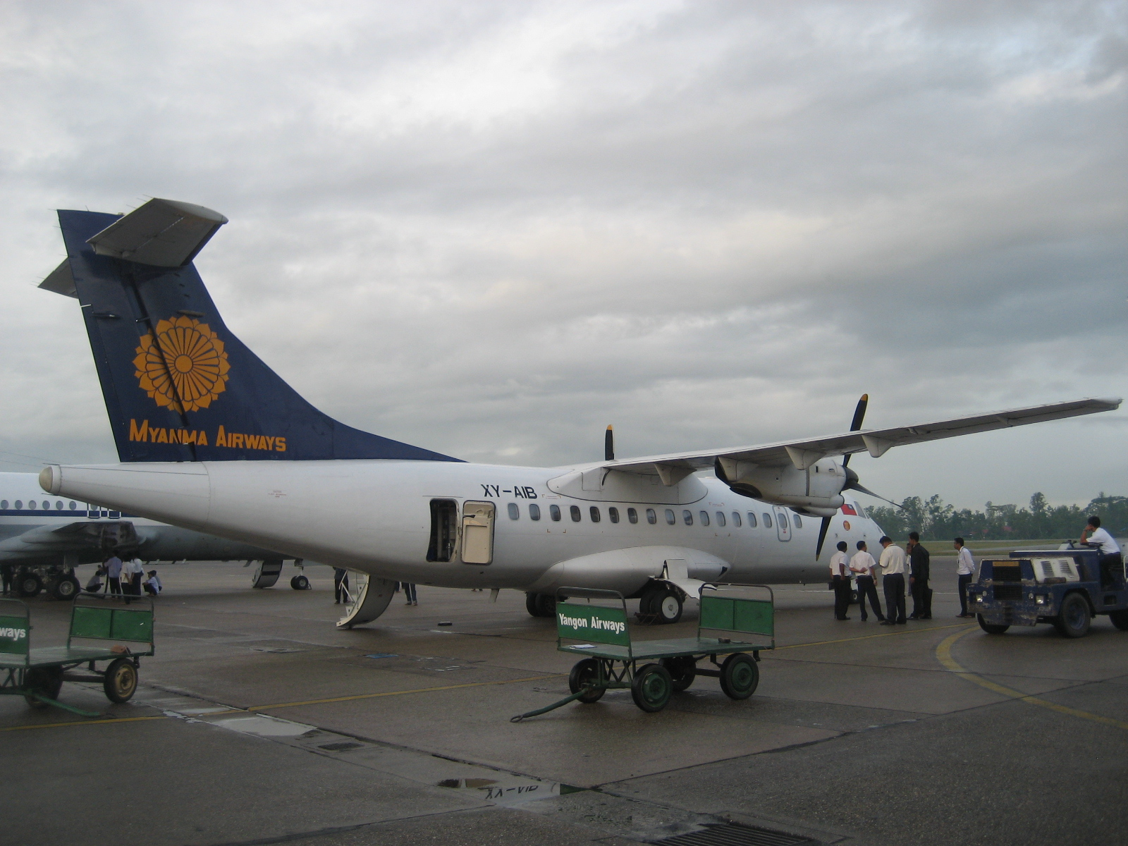 Myanma Airways' ATR 42-320 aircraft at Yangon International Airport